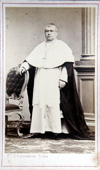 Fratelli D'Alessandri: Cardinal Filippo Maria Guidi (Bologna, July 18 1815 - Rome, February 27 1879), O. P. . Picture taken in 1869 during the First Vatican Council, where the sitter attended as Council Father.